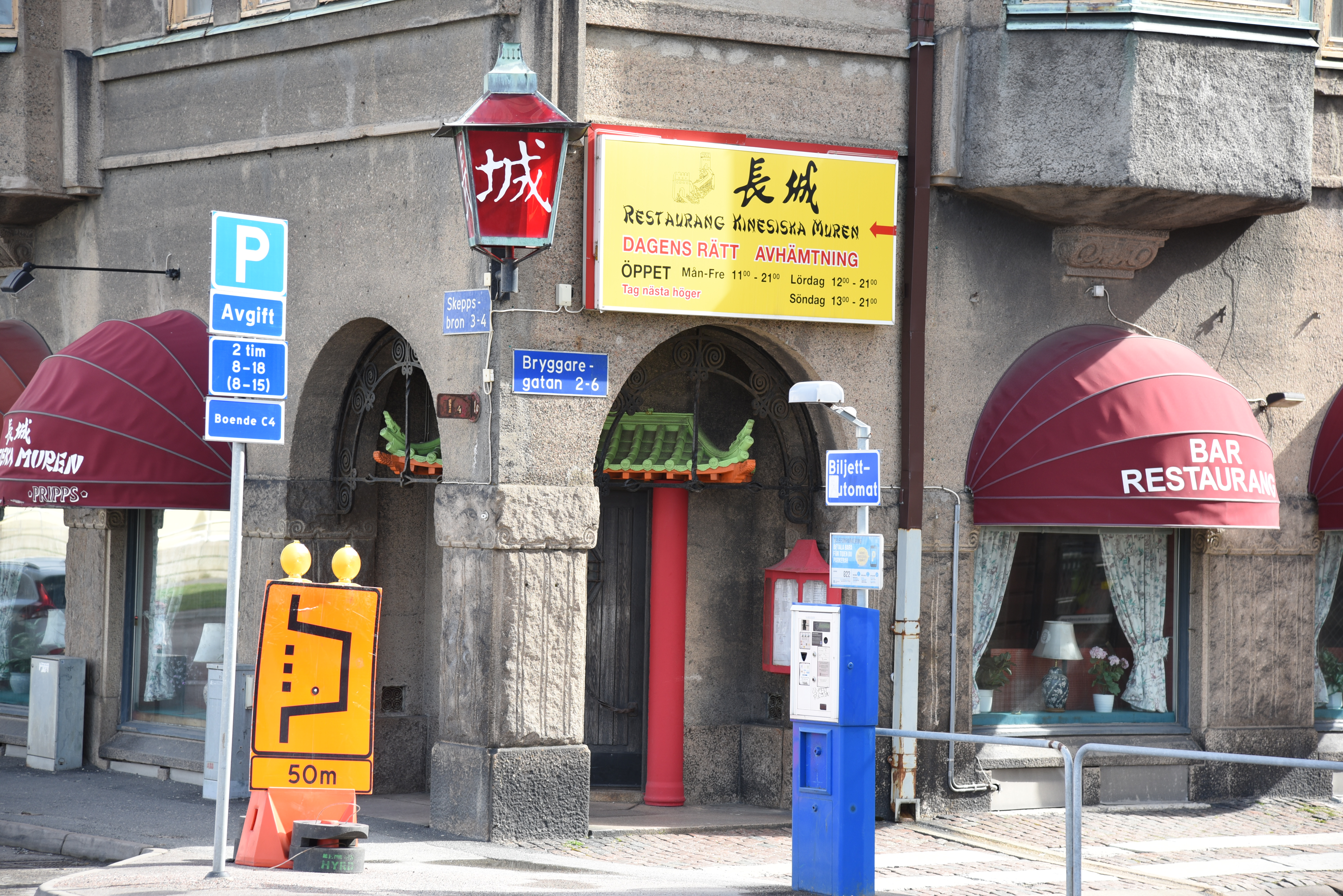 Restaurant Kinesiska muren in the centre of Göteborg. It was the first chinese restaurant in Sweden, opened 1959.